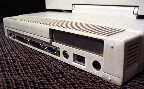 T1000 Toshiba computer from 1985